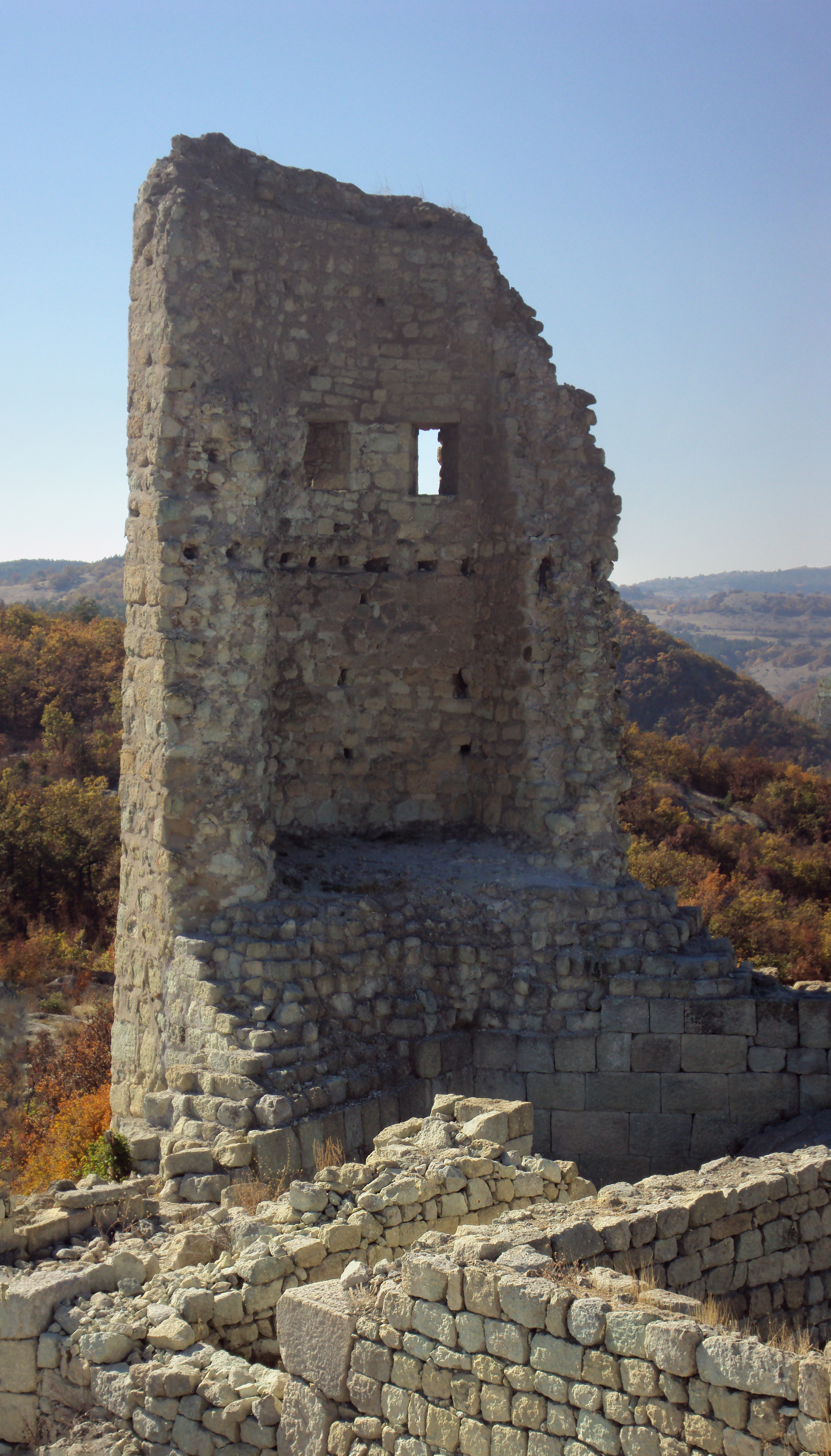 Perperikon, Kardzhali District, Bulgaria